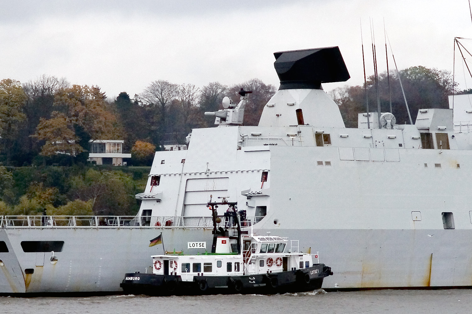 Goalkeeper CIWS (Close-in weapon system) on the Netherlands Navy's frigate HNLMS De Zeven Provincien (F 802).